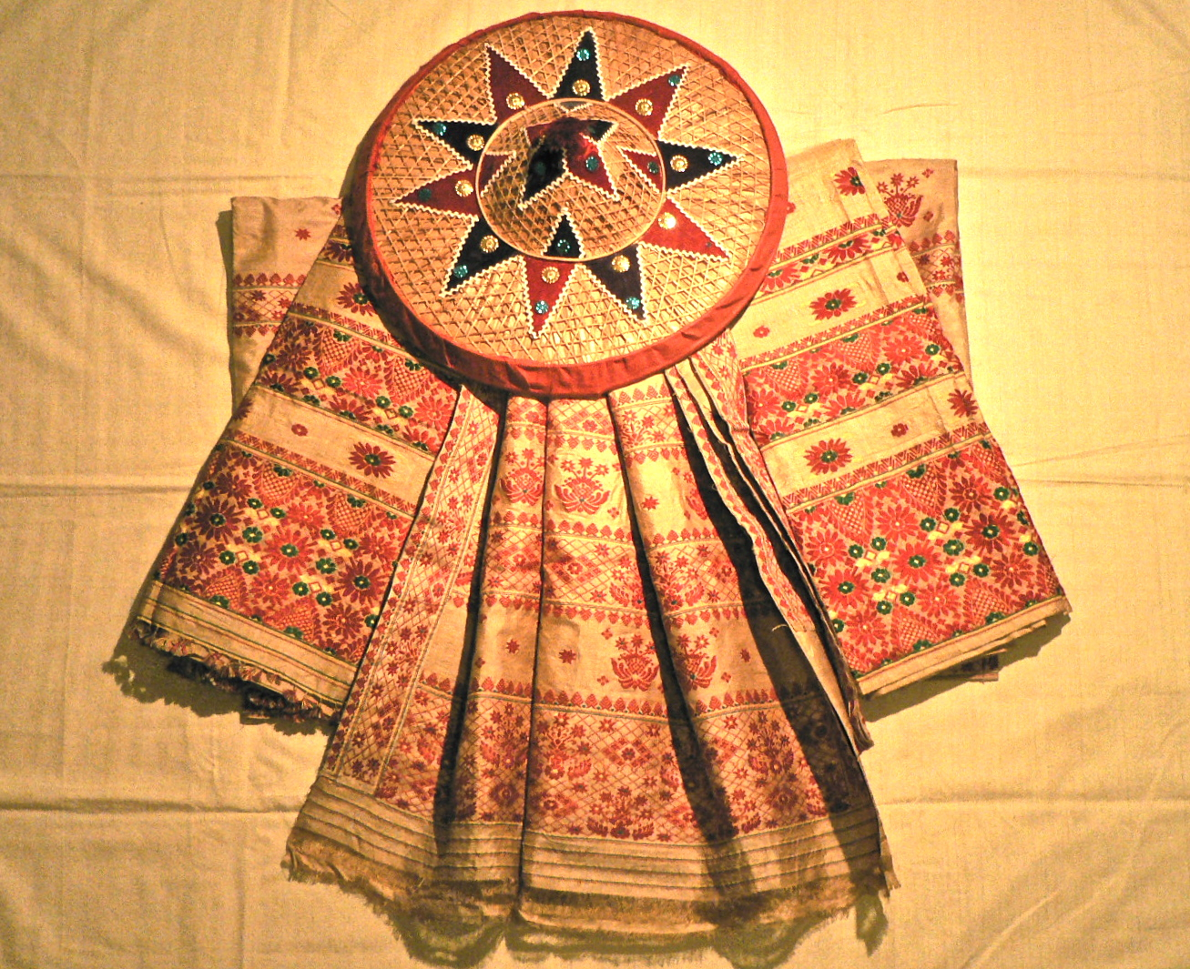 A set of mekhela chadors made with Assamese muga silk arranged around a japi